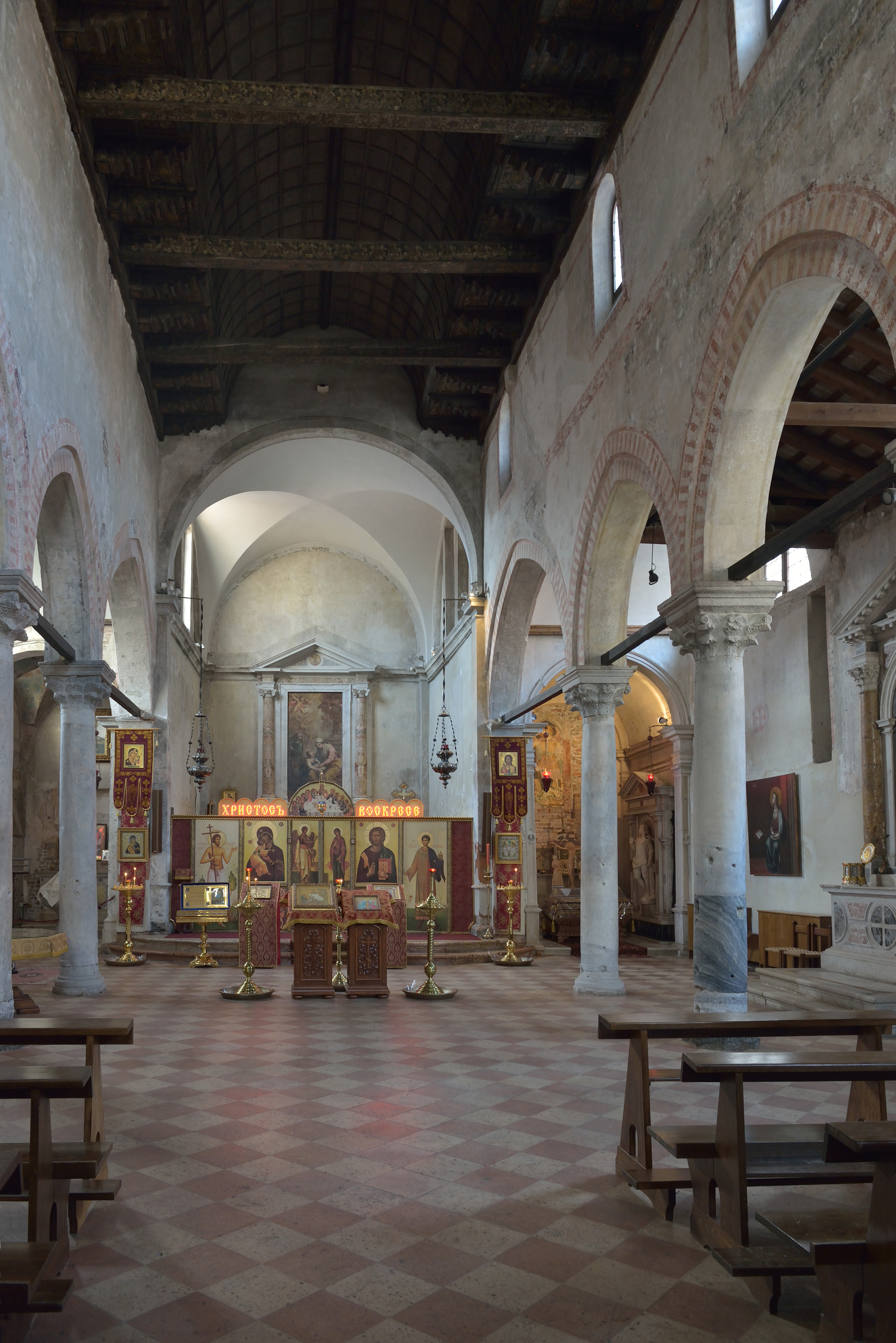 San Zan Degola church in Venice.